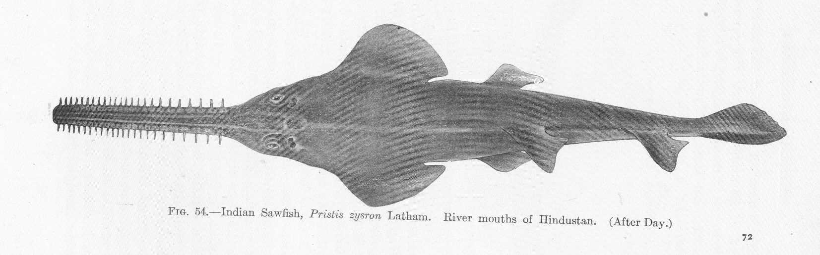 Indian Sawfish, Pristis sysron Lathan. River mouths of Hindustan Subject: Sawfishes, Pristis Tag: Fish